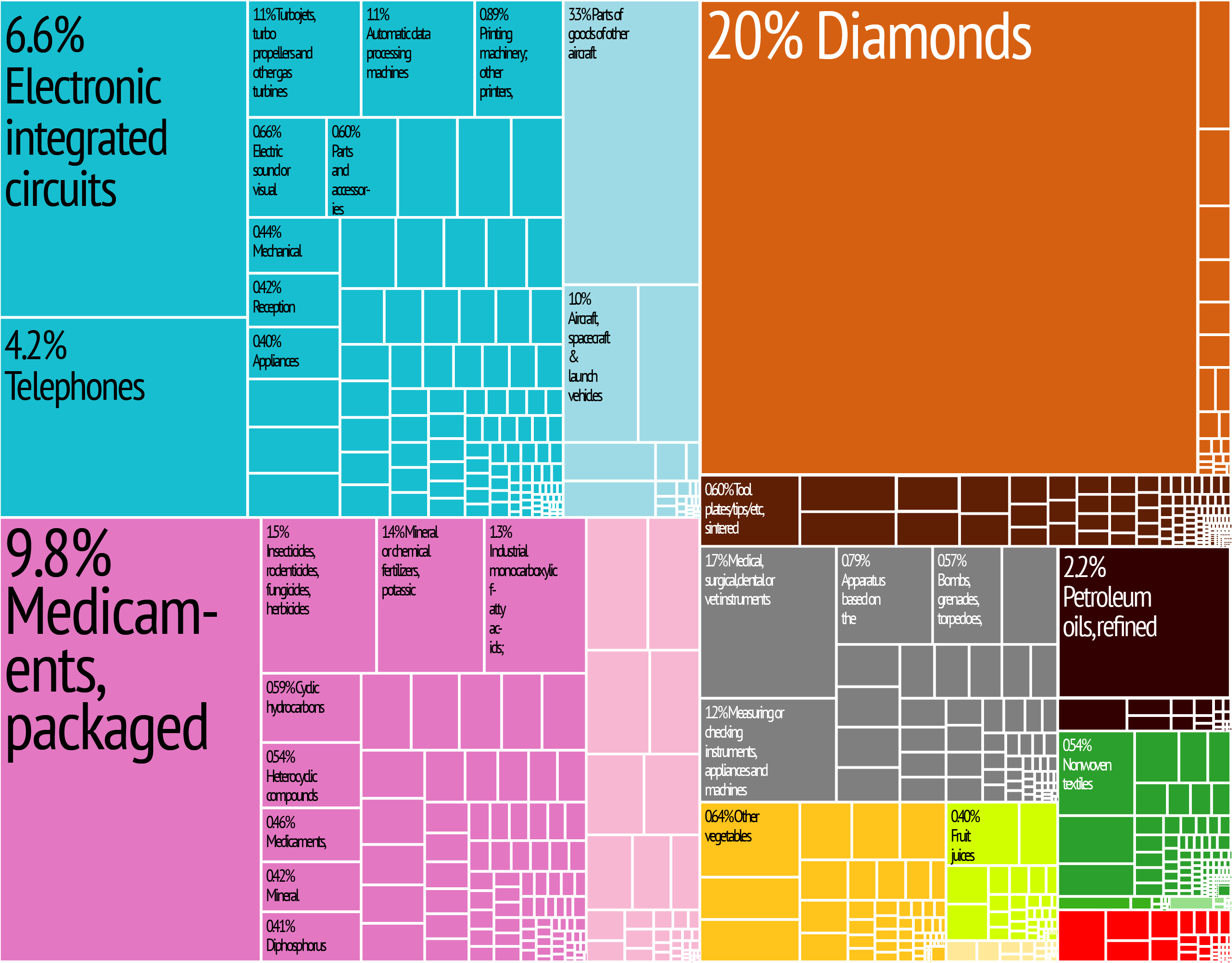 Israel Export Treemap from MIT Harvard Economic Complexity Observatory